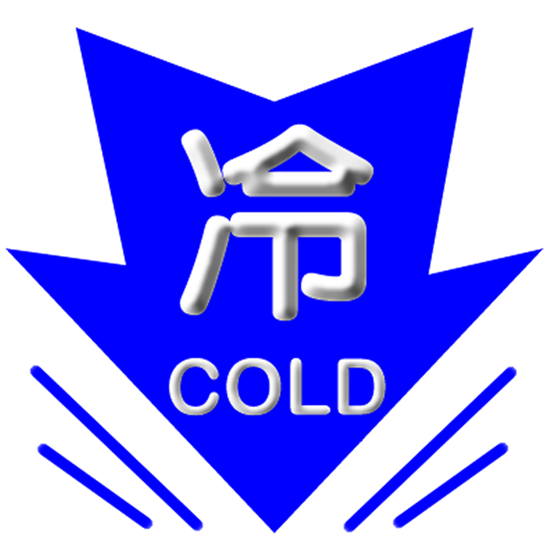 Cold Weather Warning